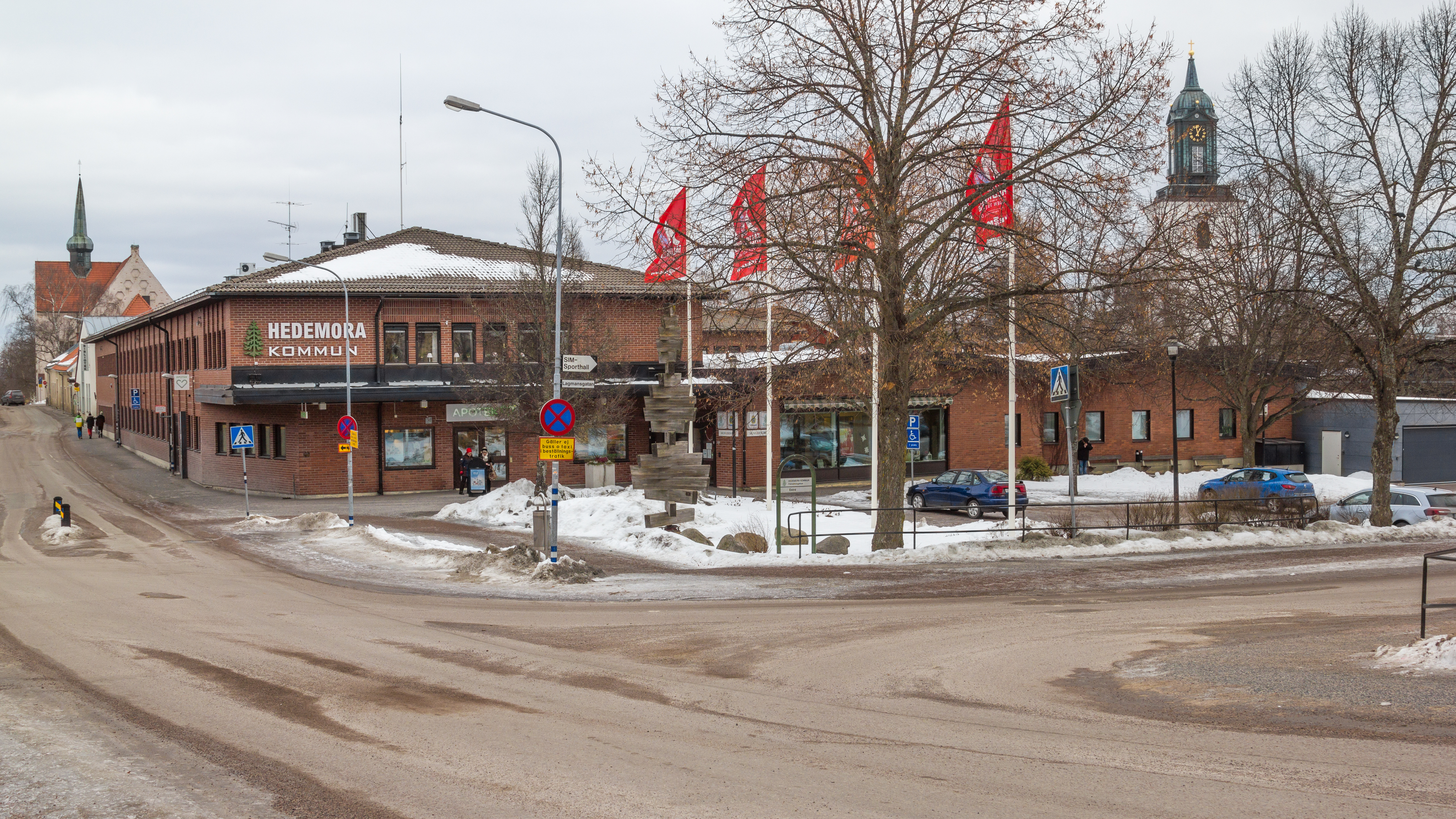 Square Oxtorget, with the municipality office Tjädernhuset and the sculpture Granen ("The spruce") by Krister Dahl, 1981. Primary school Vasaskolan and Hedemora church in background. Hedemora, Dalarna County, Sweden.